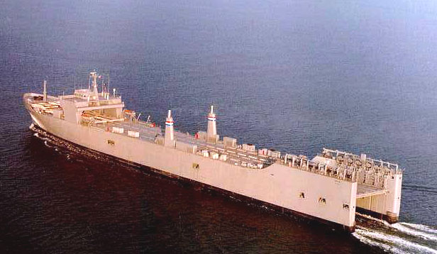 the SS Cape May, underway